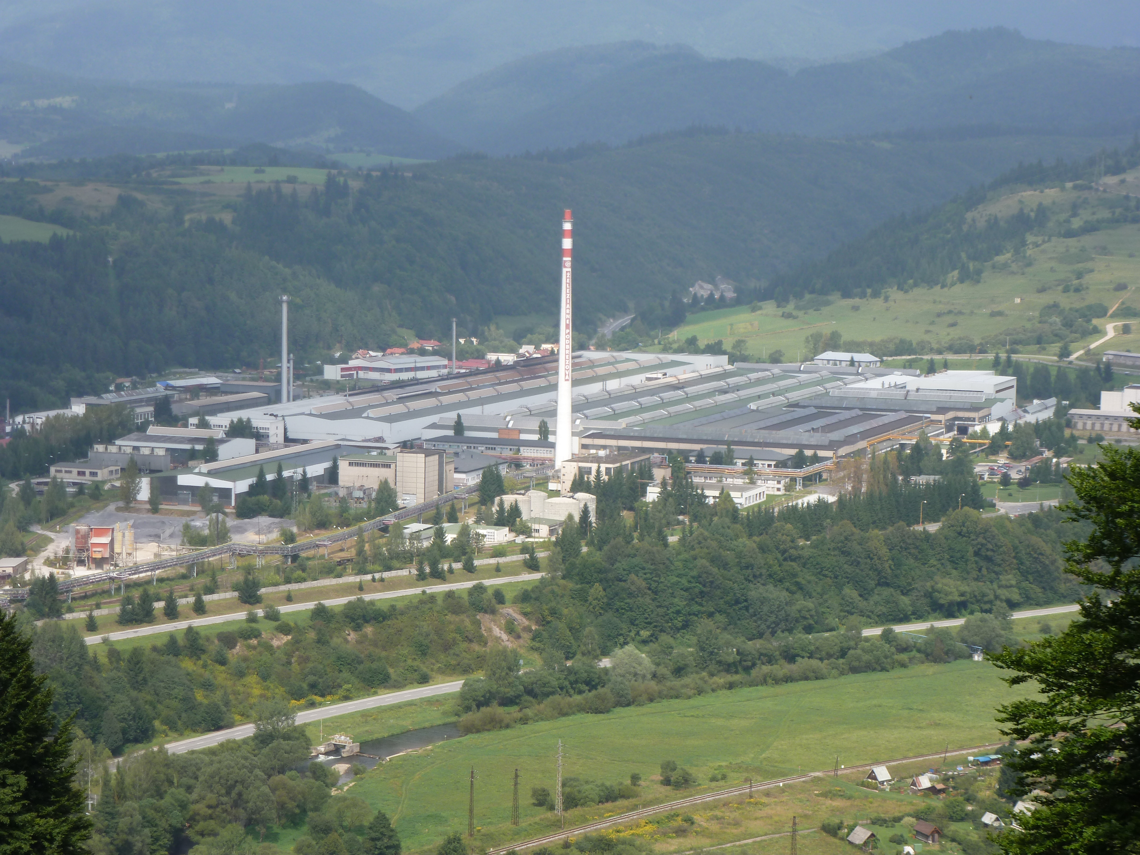 Železiarne Podbrezová, seen from Chvatimech.